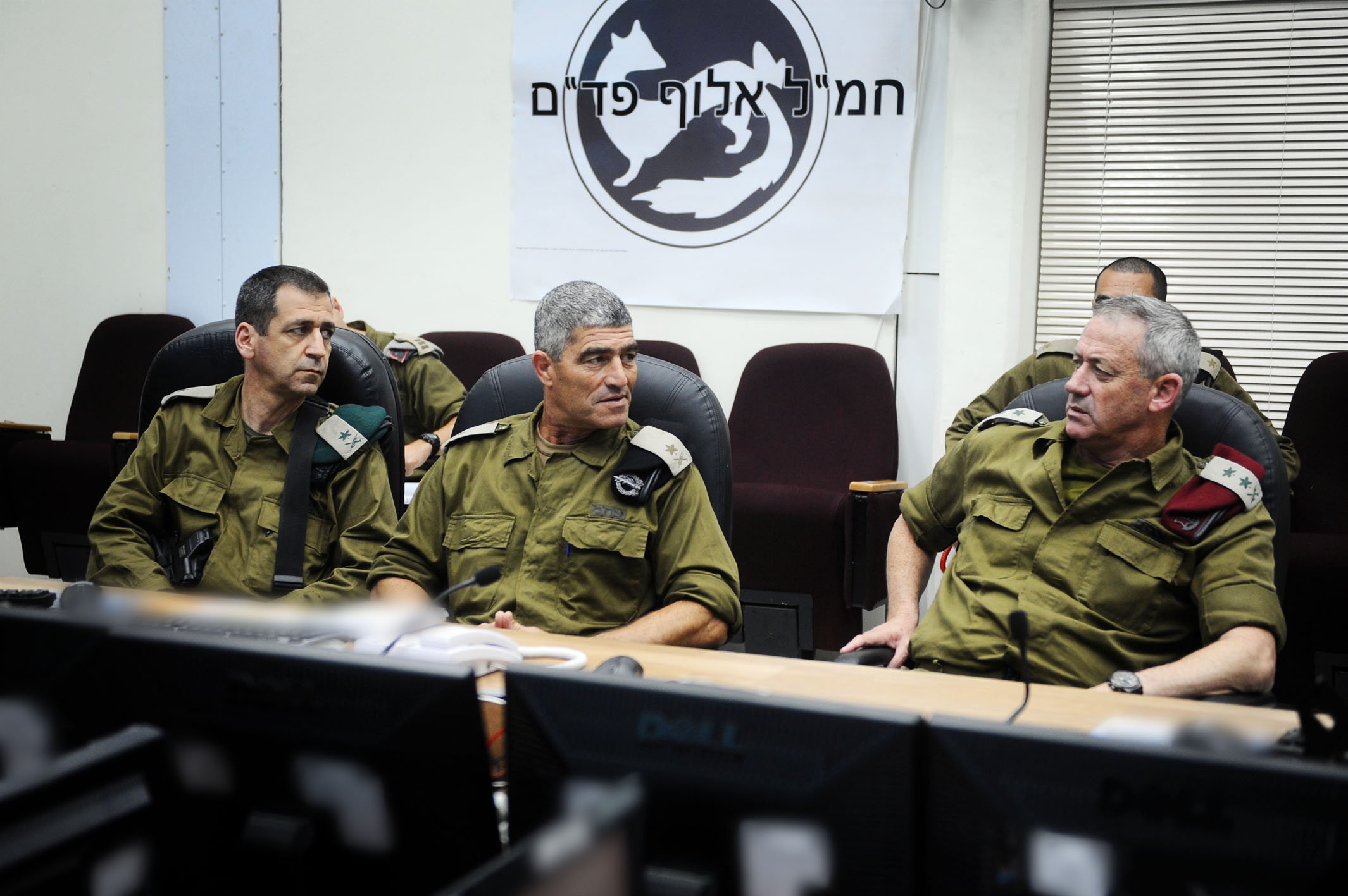 August 21, 2011 Today, IDF Chief of Staff Lt. Gen. Benny Gantz visited the Southern Command to assess the security situation in light of the recent events. Photo: IDF Spokesperson Unit.